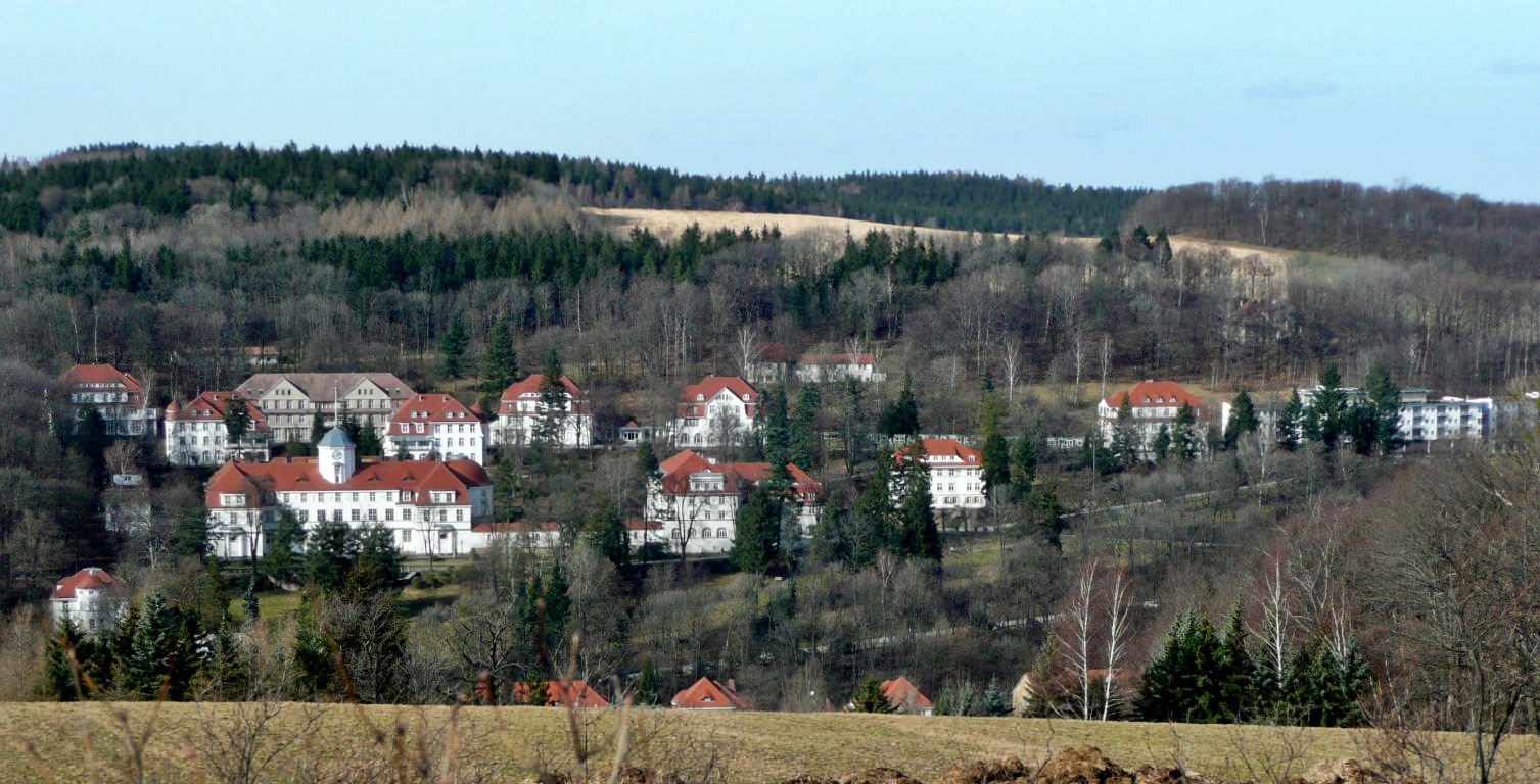 This image shows the health park in Bad Gottleuba in Saxony.